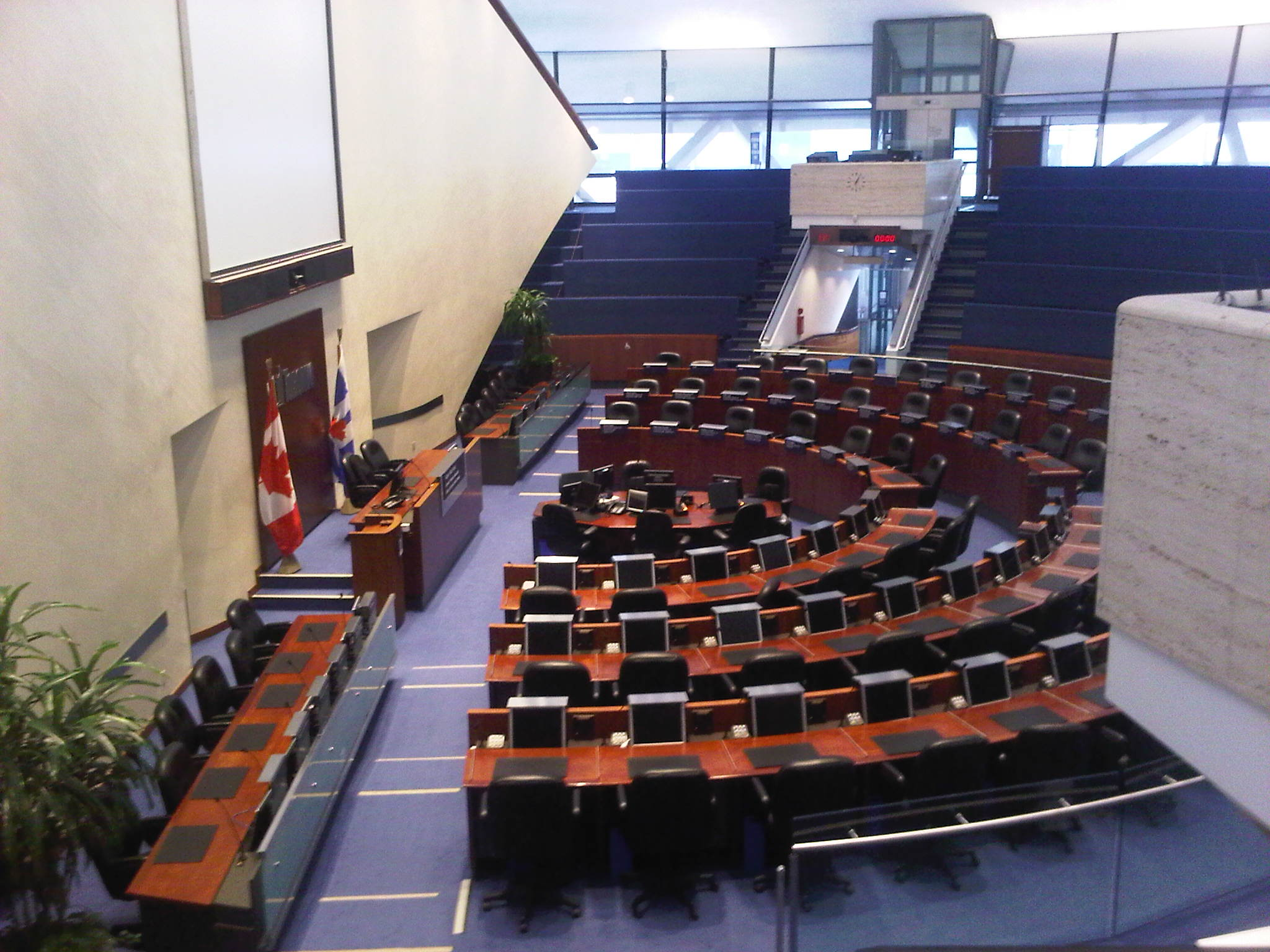 Toronto City Council Chamber Not in Session Quiet Peaceful ...for now.